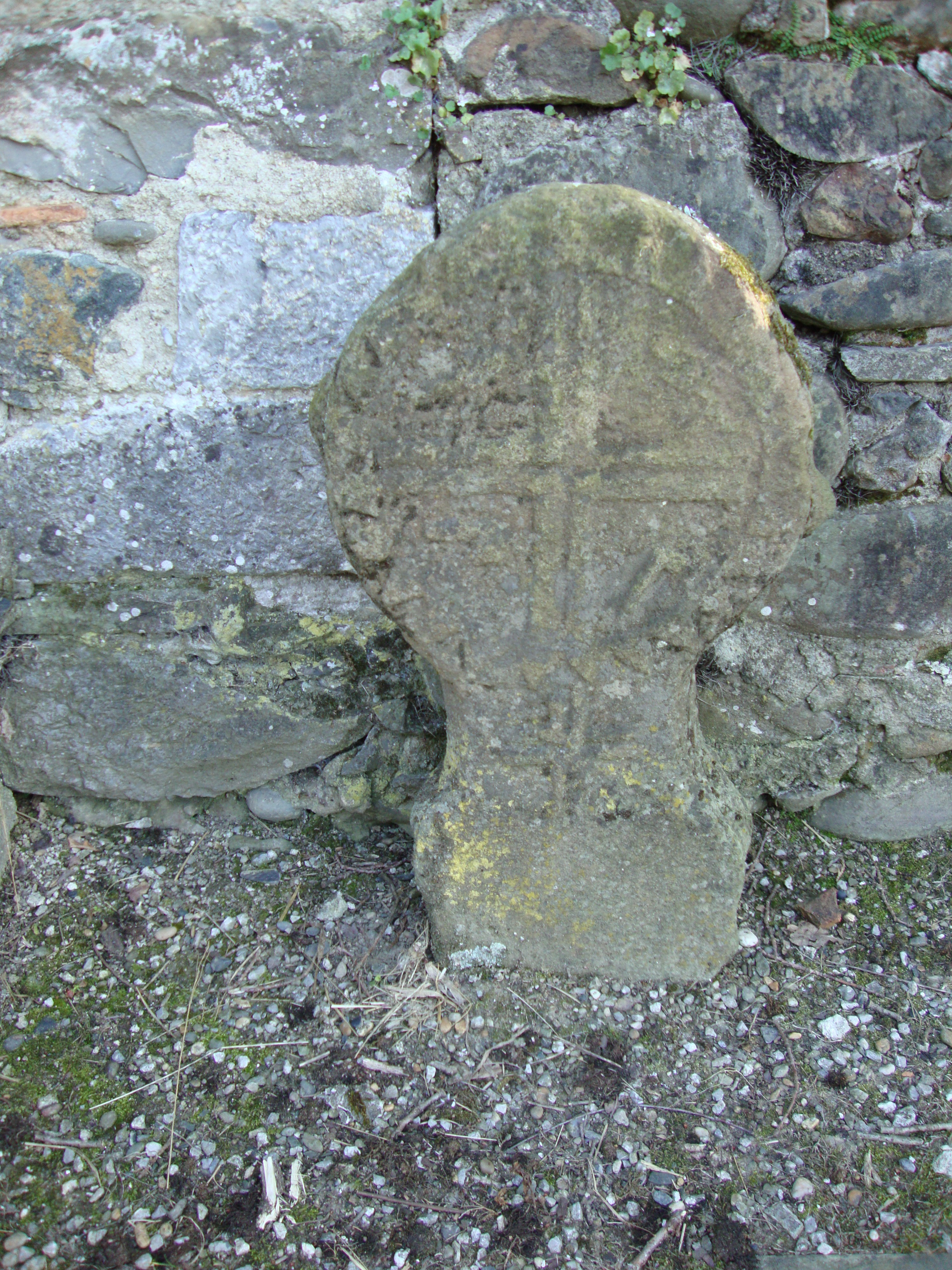 Sibas (Alos-Sibas-Abense, Pyr-Atl, Fr) old basque stele